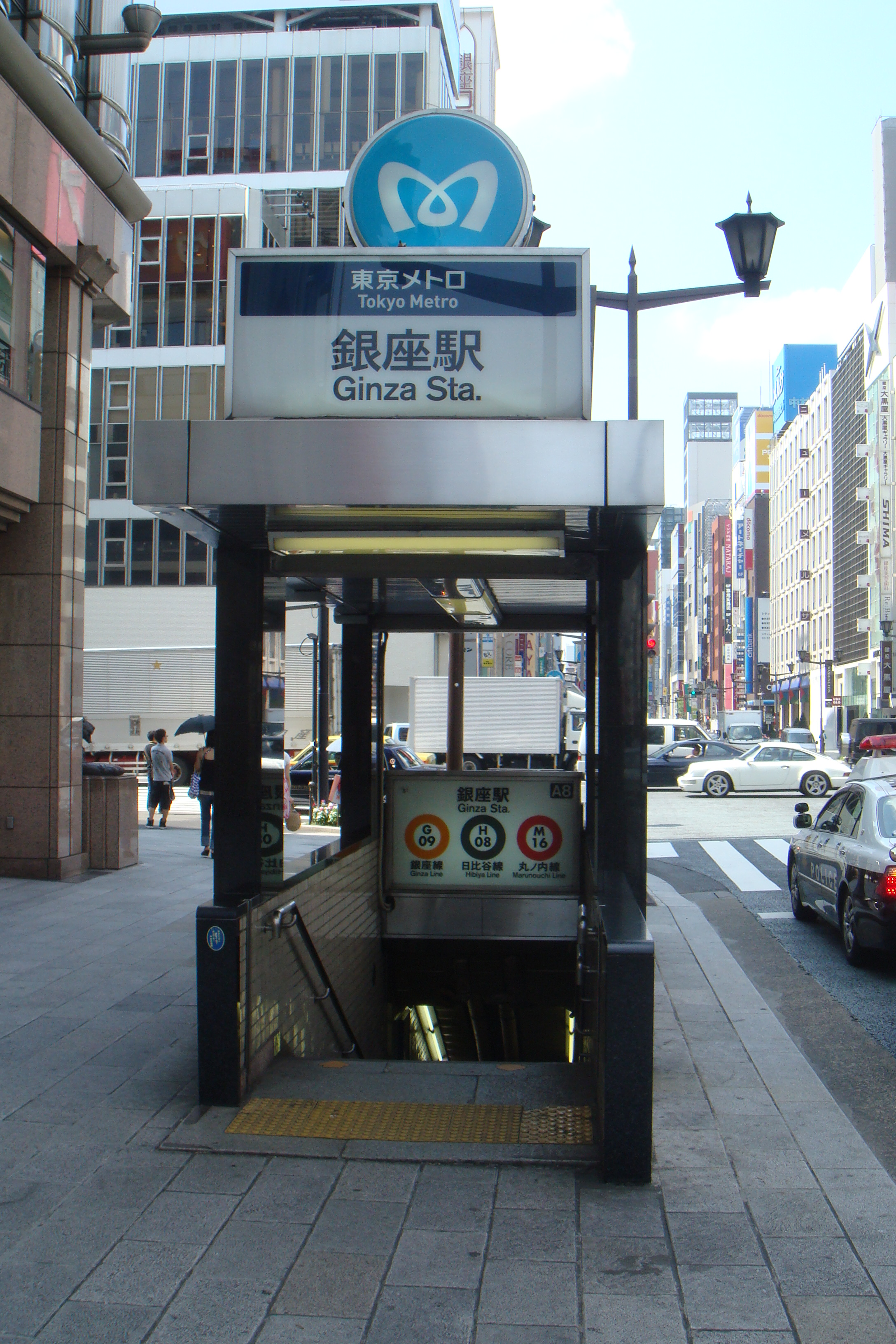 Блез во Метро Станица во Гинза